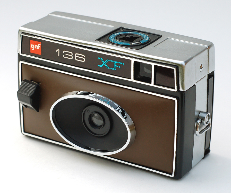 Here's a cool camera that was made c1969 and sold by GAF, a company with a long history that includes ties to Agfa/Ansco. The 136 XF is the same camera as the Halina Signal Flash, so I feel safe in assuming this camera was actually made by Haking as well, since it says it was made in China. It takes 126 film cartridges. I first saw this camera about 6 months ago in Haiku Garry's photostream. His photo is much better than mine, so you should have a look. Unfortunately, mine is missing the ring around the lens that says "color corrected".